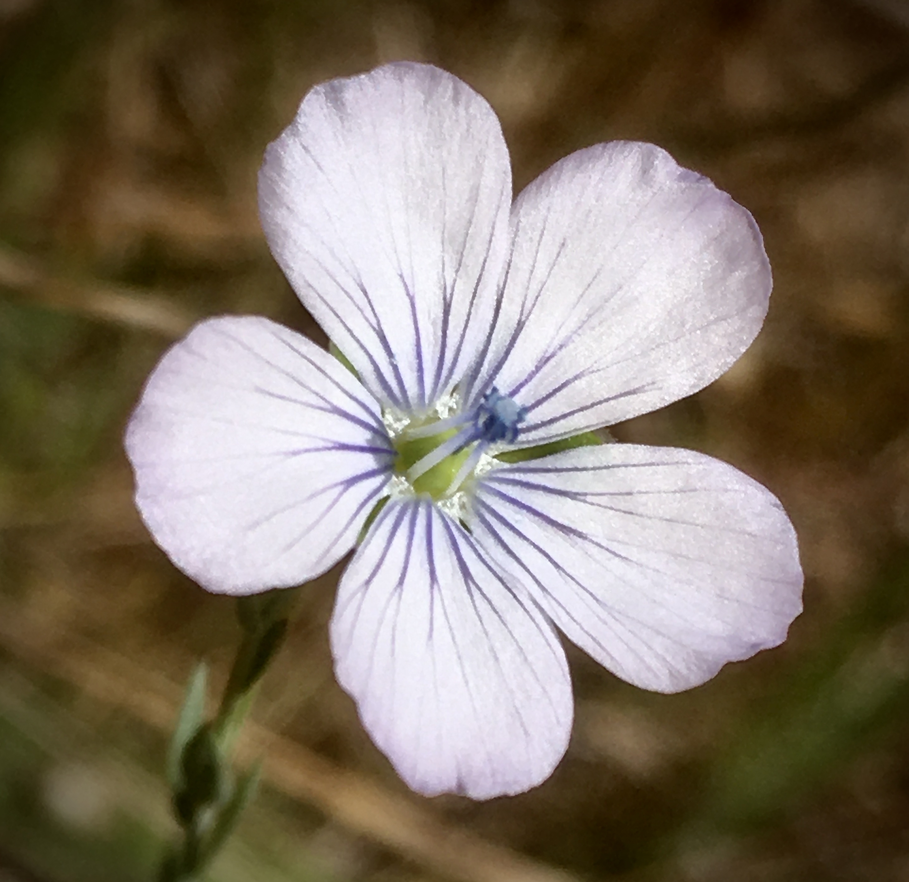 Linum bienne, Narrowleaf Flax. Location: near CA-1, north trailhead, Pt Sierra Nevada trailhead. Hearst San Simeon SP